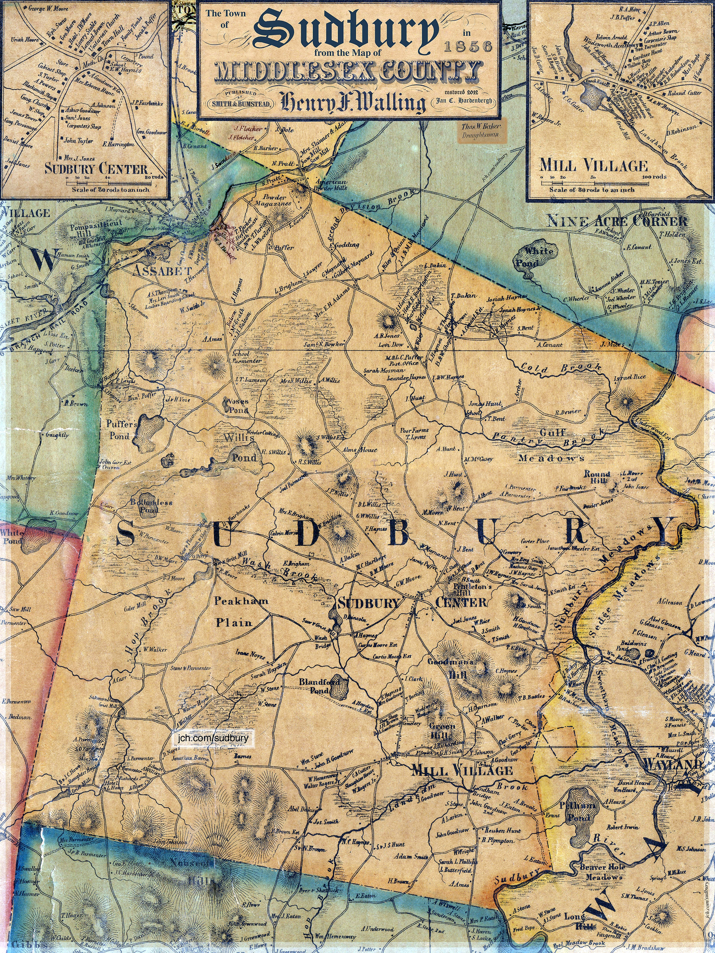 This is a restored part of the section of Sudbury Massachusetts from the The Map of Middlesex County, H.F. Walling, 1856. Along with 2 insets Town Center and Miil Village from other parts of the map.